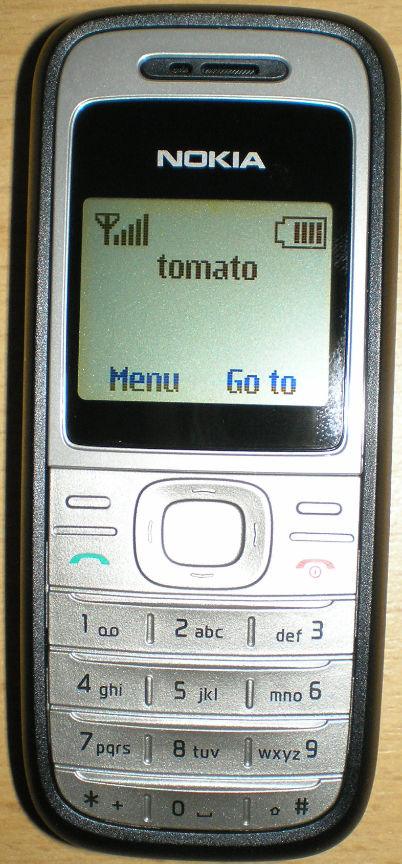 Nokia 1200 mobile phone, cropped